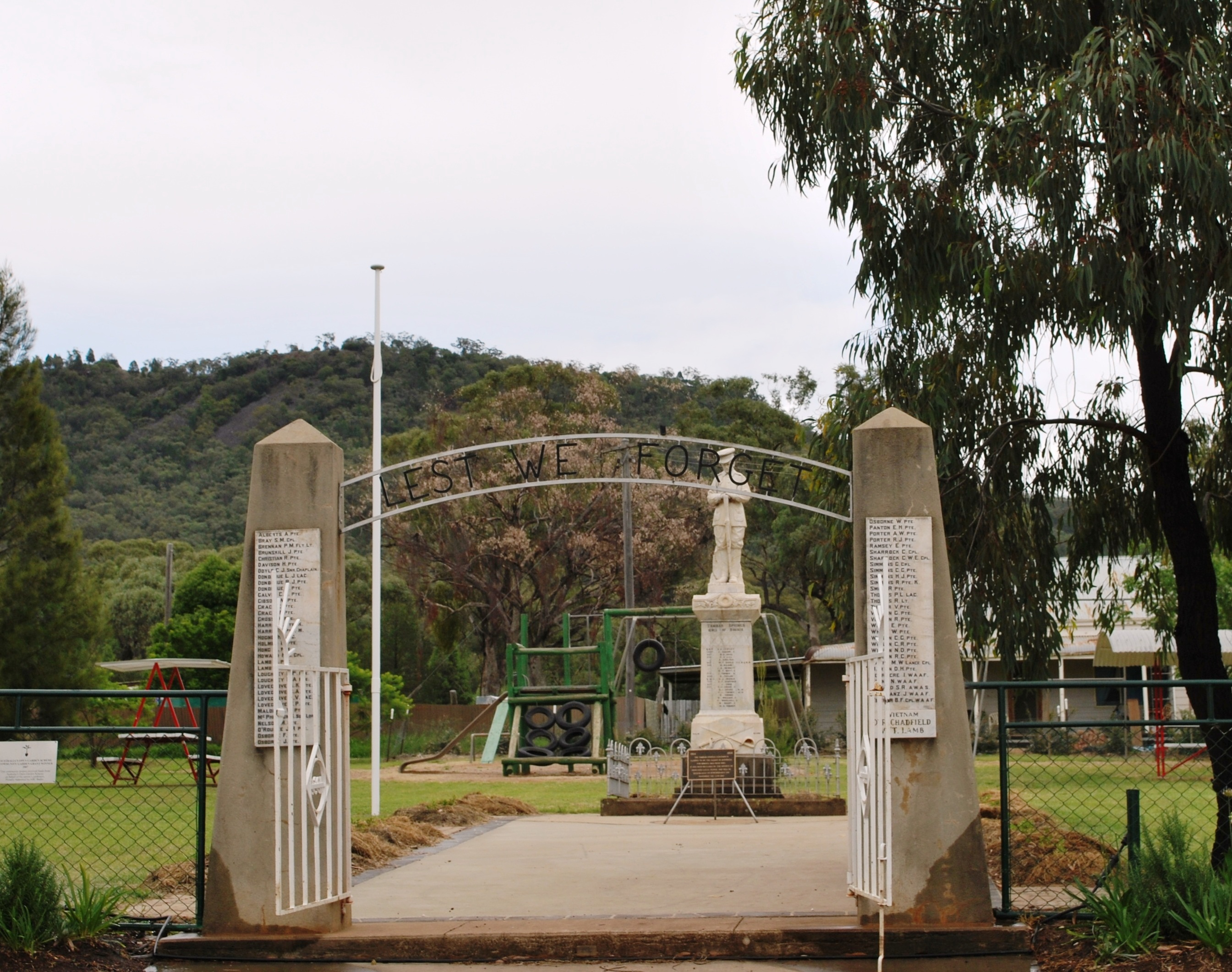 The gates to the war memorial at Tambar Springs, New South Wales